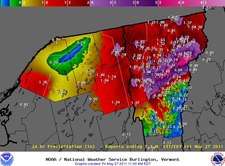 On this map you can see many locations receiving 2 to 4 inches (purple/pink) in the 24 hour period across most of central Vermont and parts of the Champlain Valley from severe thunderstorms on May 26, 2011. A couple of the higher 24 hour rainfall amounts included 4.75 inches at the Saint Johnsbury Museum in Caledonia County, 4.15 inches 1 mile north of Northfield, and 4.06 inches in Danville, Vermont on 27 May 2011. This heavy rainfall in a short period of time associated with powerful thunderstorms caused major flash flooding across central Vermont.